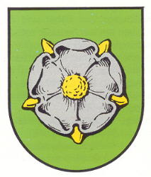 Unofficial coat of arms of former municipality of Berzweiler/Inoffizielles Wappen der ehemaligen Gemeinde Berzweiler